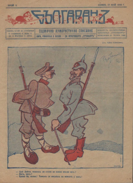 Balgaran magazine, Bulgaria